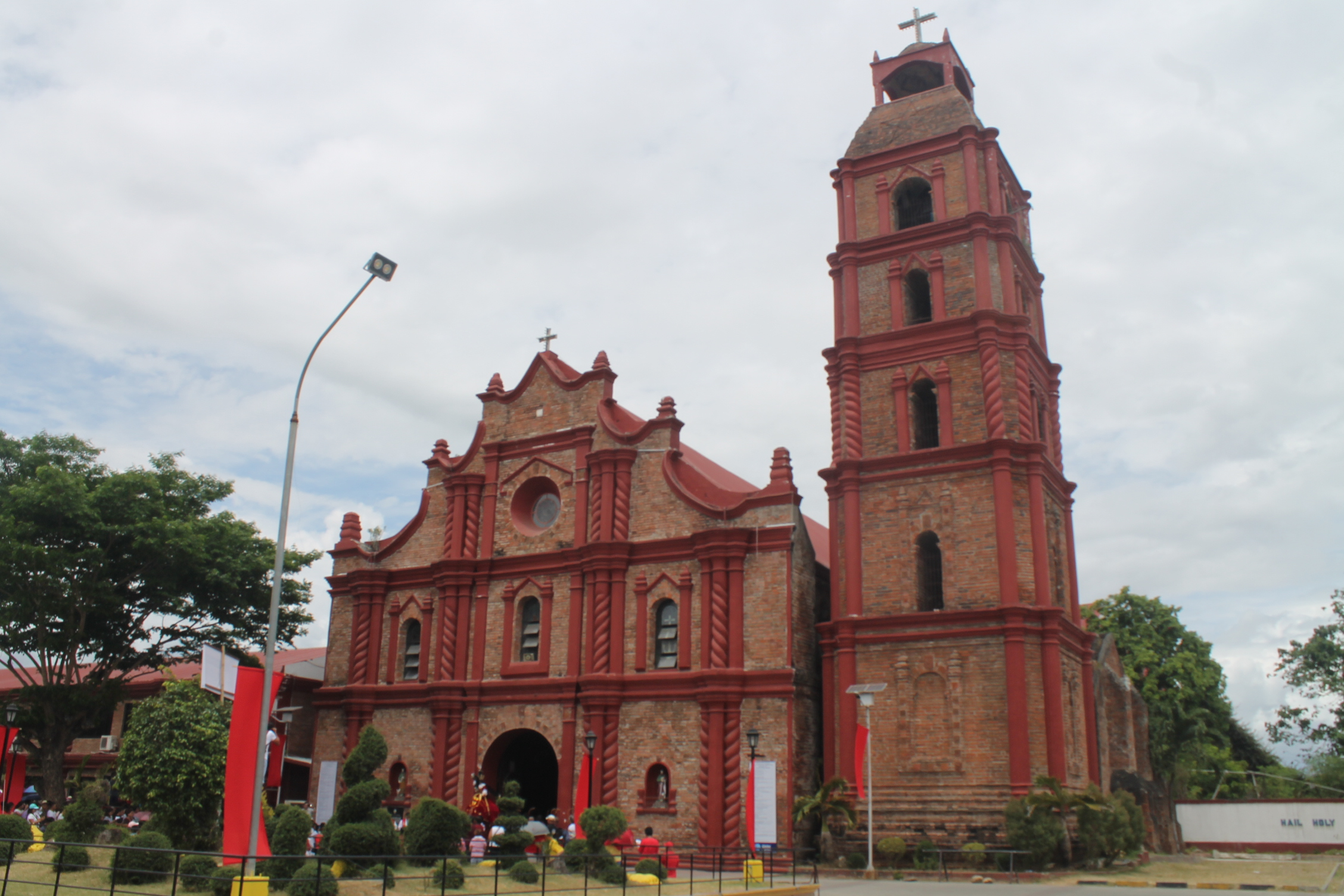 The Tuguegarao Cathedral (Saint Peter Metropolitan Cathedral) in 2018.